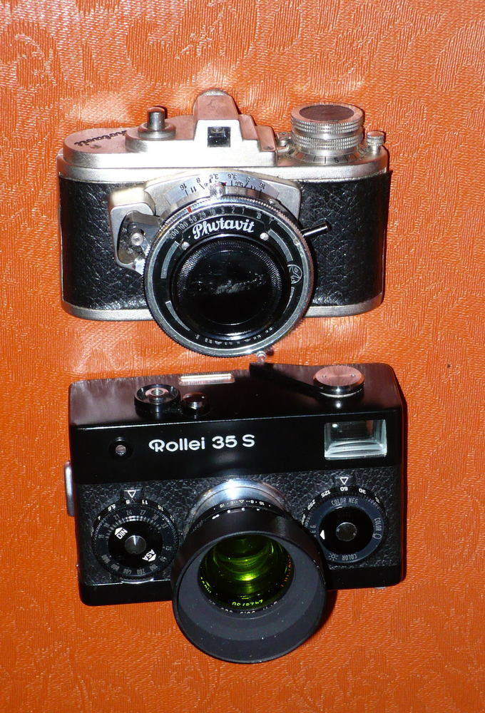 Photavit vs Rollei 35S